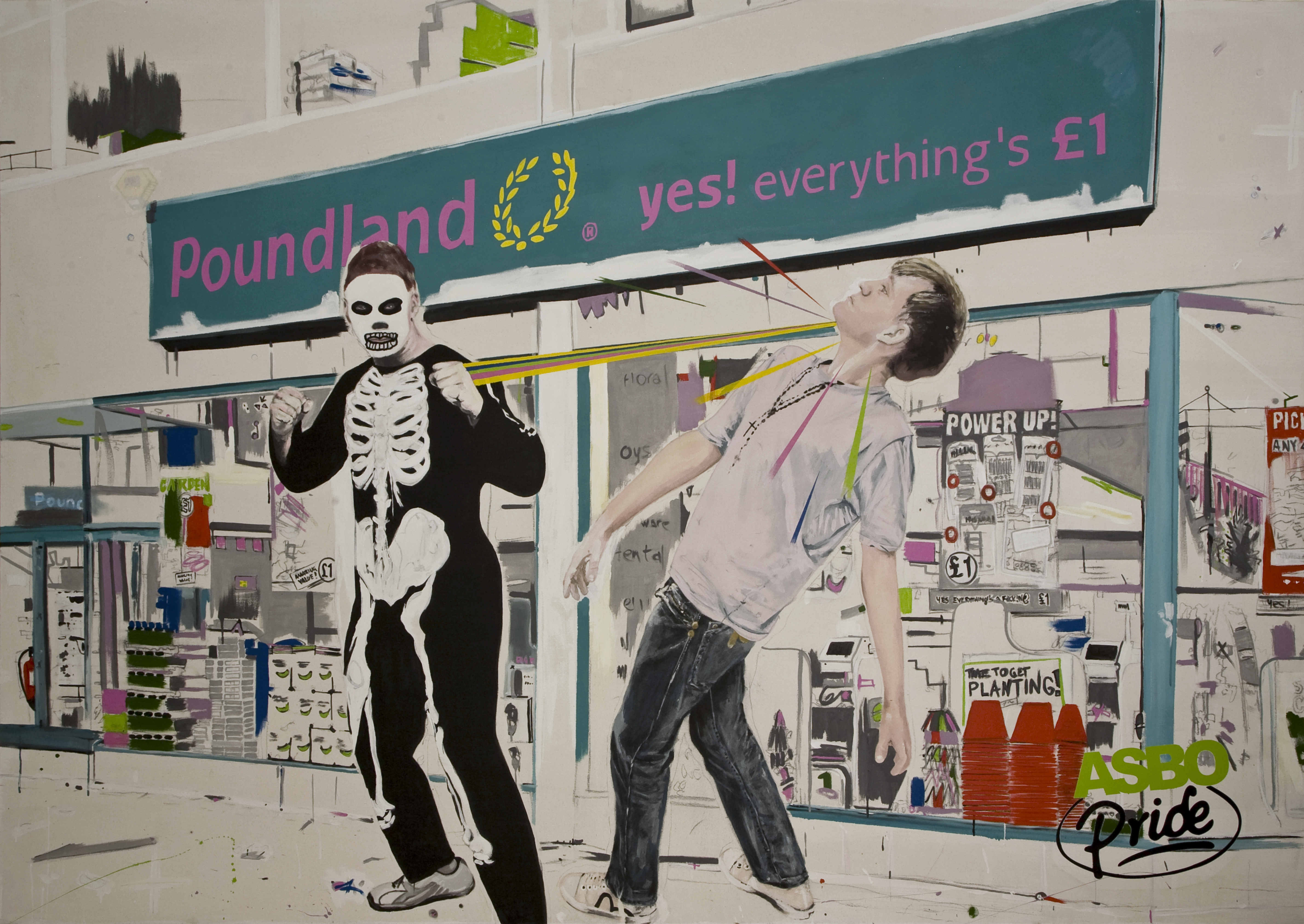 Acrylic & charcoal on canvas 240 x 170 x 7 cm A POUNDING OUTSIDE POUNDLAND (or how my nose got its wonk) Stuart Semple 2010